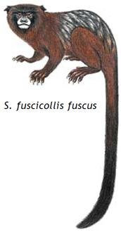 Diagrama morfologia de Saguinus fusicollis